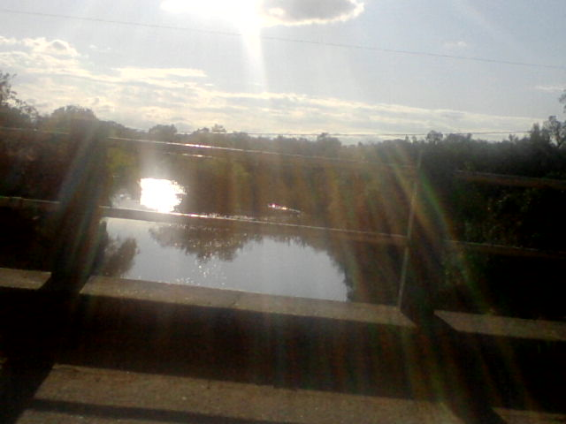 View of Arroyo del Parao from the old bridge "puente viejo" near Vergara, Treinta y Tres, Uruguay.